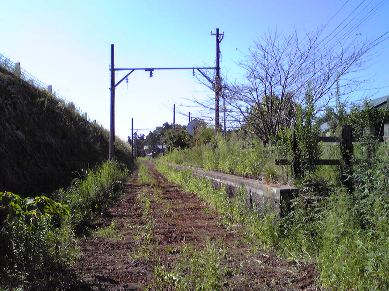 The platform which was left in the remains of Ajikata Station, Niigata Kotsu Railway which became the abolished line on April 5, 1999. This station became the abandoned station on April 5, 1999.